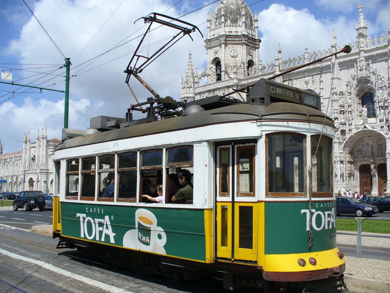 Tram in Lisbon